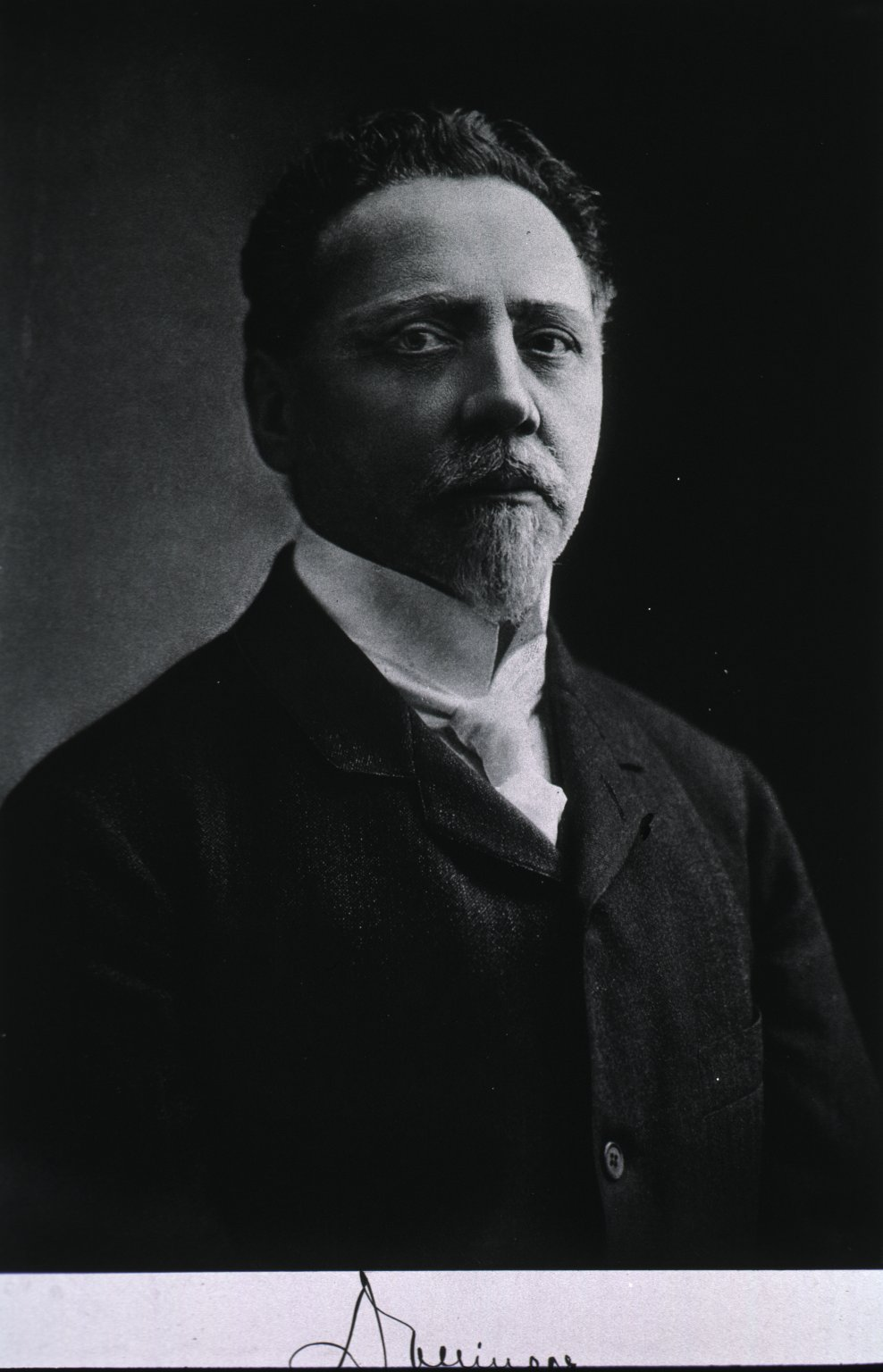 Gyula Dollinger